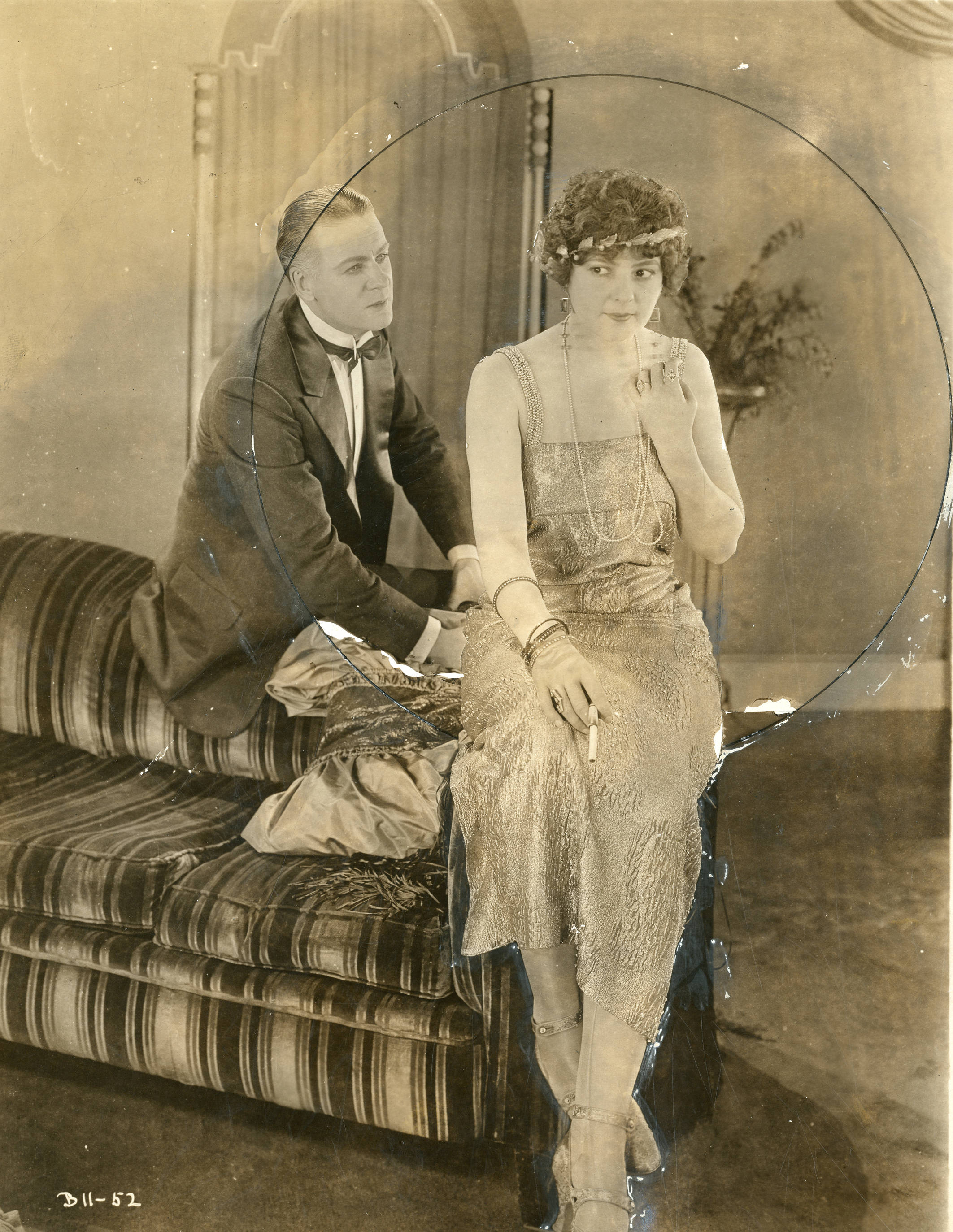 Still from the American drama film Pleasure Mad (1923) Subjects: motion pictures, actresses